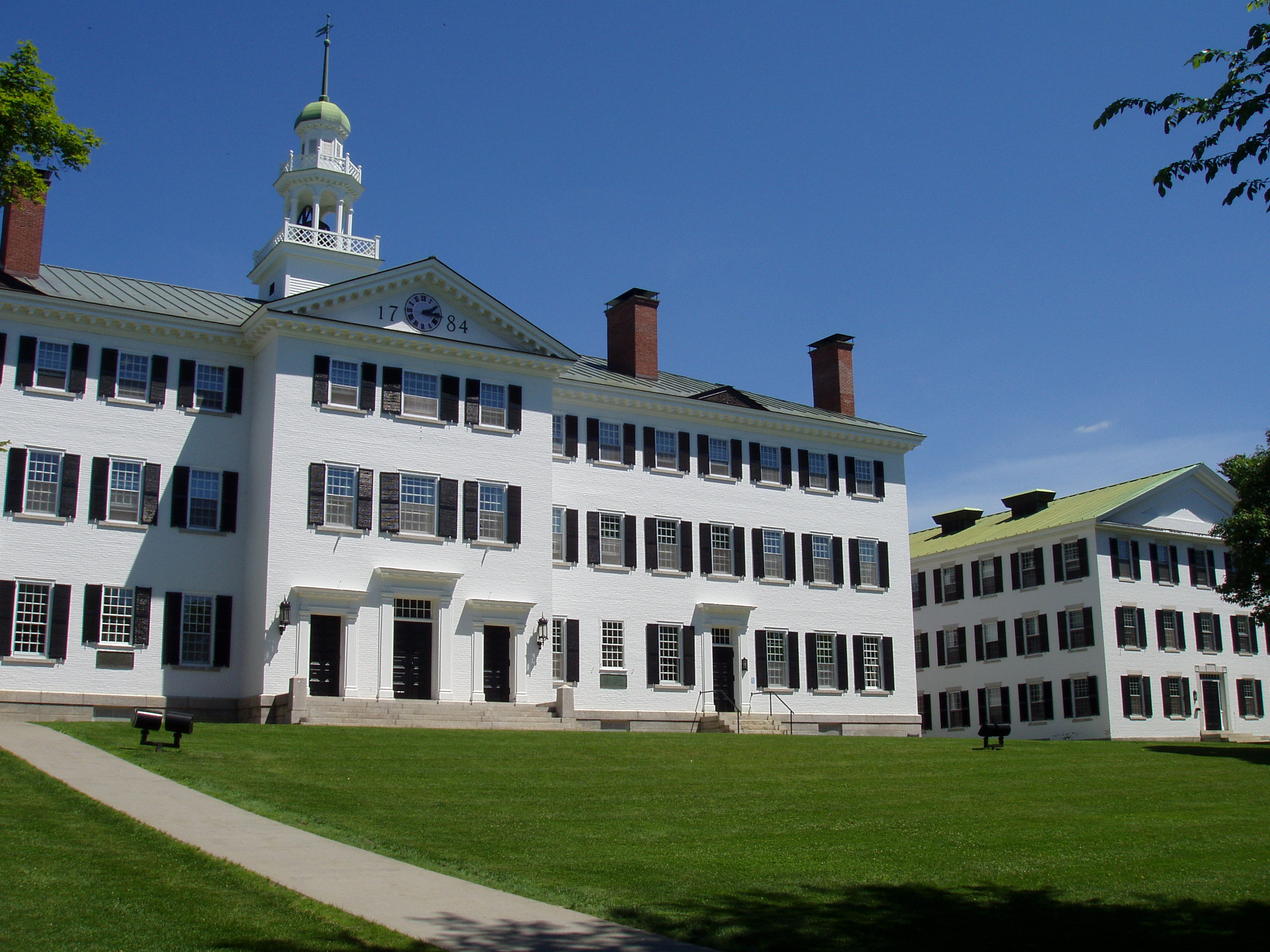 Dartmouth Hall, Dartmouth College, Hanover, New Hampshire, USA - general view.